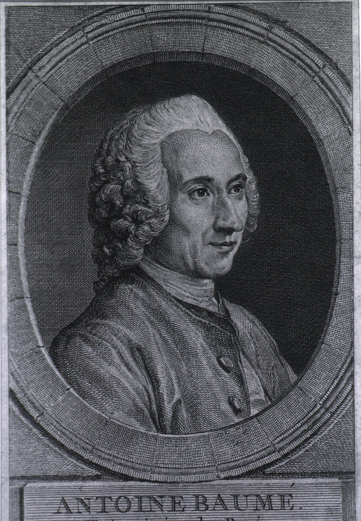 Collection: Images from the History of Medicine (NLM) Title: Antoine Baumé C.N. Cochin delin. Aug. de St. Aubin Sculp. Contributor: Cochin, C.N. Contributor: St. Aubin, Aug. de. Subject (Keyword): Baumé, Antoine 1728-1804 Subject (Genre): Portraits Publication Information: [1772?]. Copyright Statement: The National Library of Medicine believes this item to be in the public domain. Order No.: B02508 Physical Description: 1 print : engraving. Image Description: Head and shoulders, face to the right, in oval in decorative rectangle. Restrictions on Access: HMD provides access to digital images in lieu of originals when electronic copies exist. Access to originals may require advance notice. Please see HMD Reference Librarian for more information. Source of Acquisition: Purchase; Fauntleroy no. 403; 1967. URL: Call Number: Portrait no. 1 Record UI: 101410069